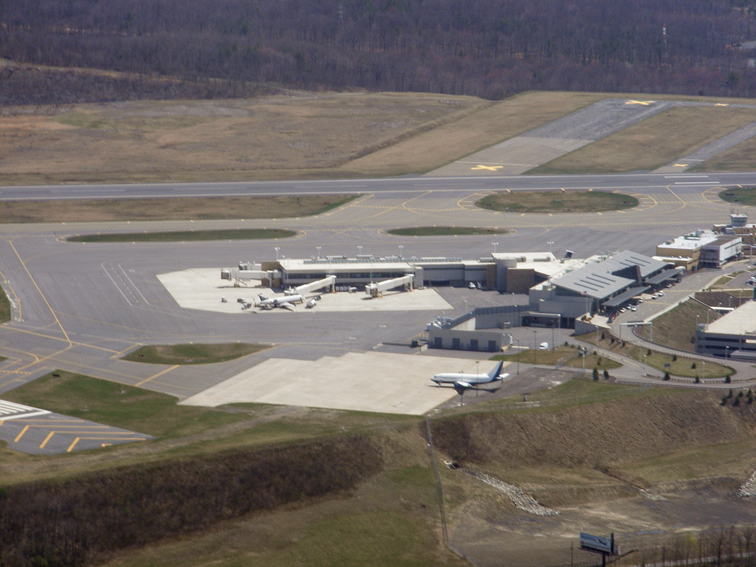 Wilkes-Barre/Scranton International Airport (KAVP/AVP) Terminals as seen from the air.